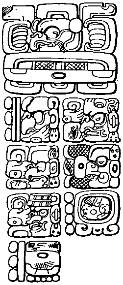 East side of stela C, Quirigua with mythical creation date in 13 (or 0) baktun, 0 katun, 0 tun, 0 uinal, 0 kin, 4 Ahau and 8 Cumku and corresponds to August 11, 3114 BCE in the Gregorian calendar.